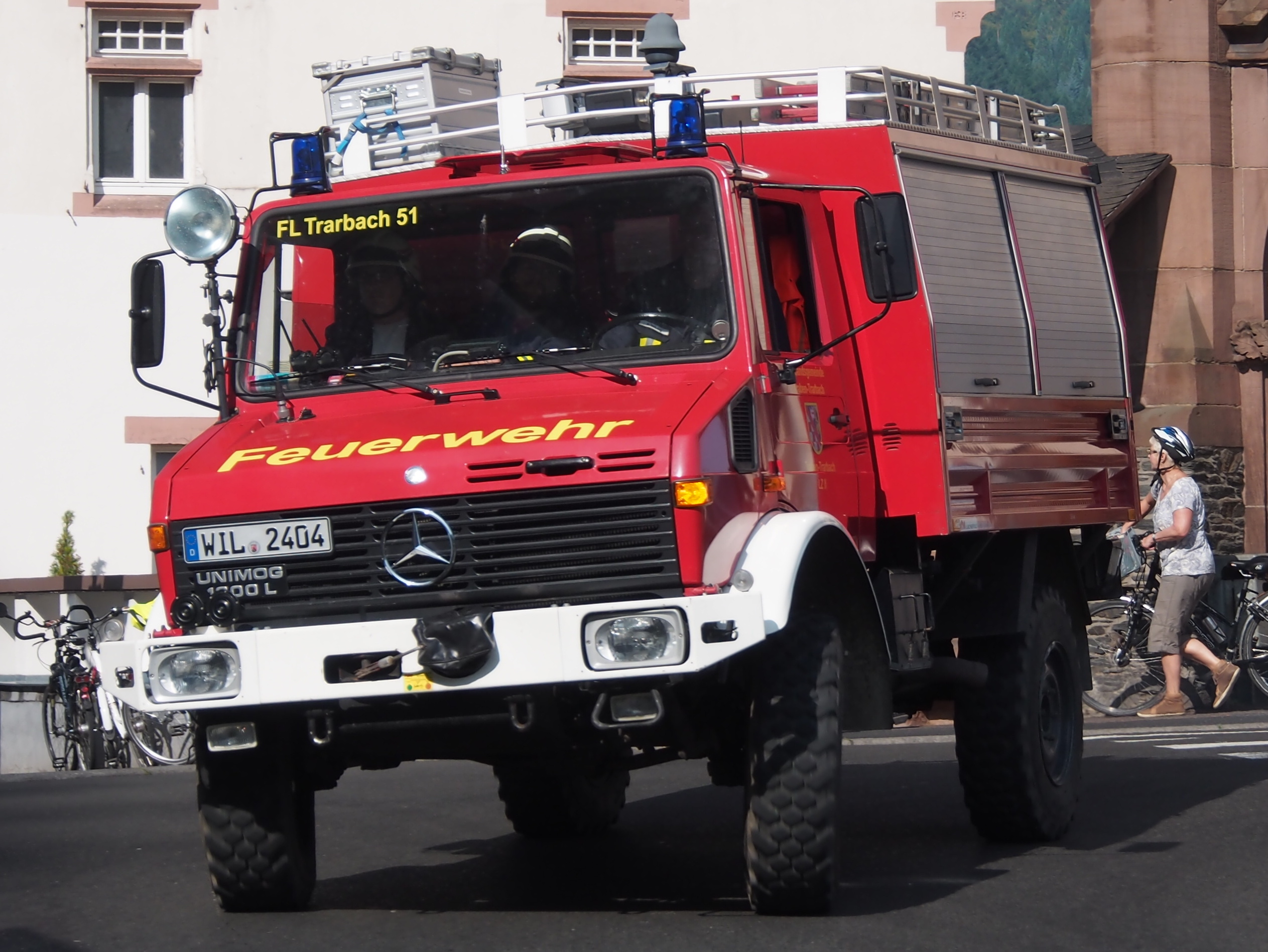 Photographed in Germany.